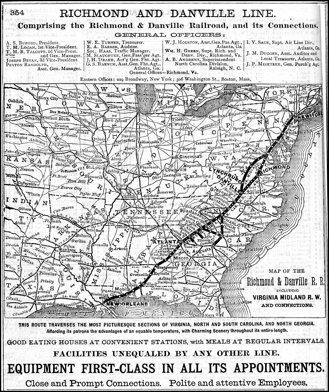 R&D Map: From Travelers' Official Railway Guide for the United States and Canada, September, 1882.